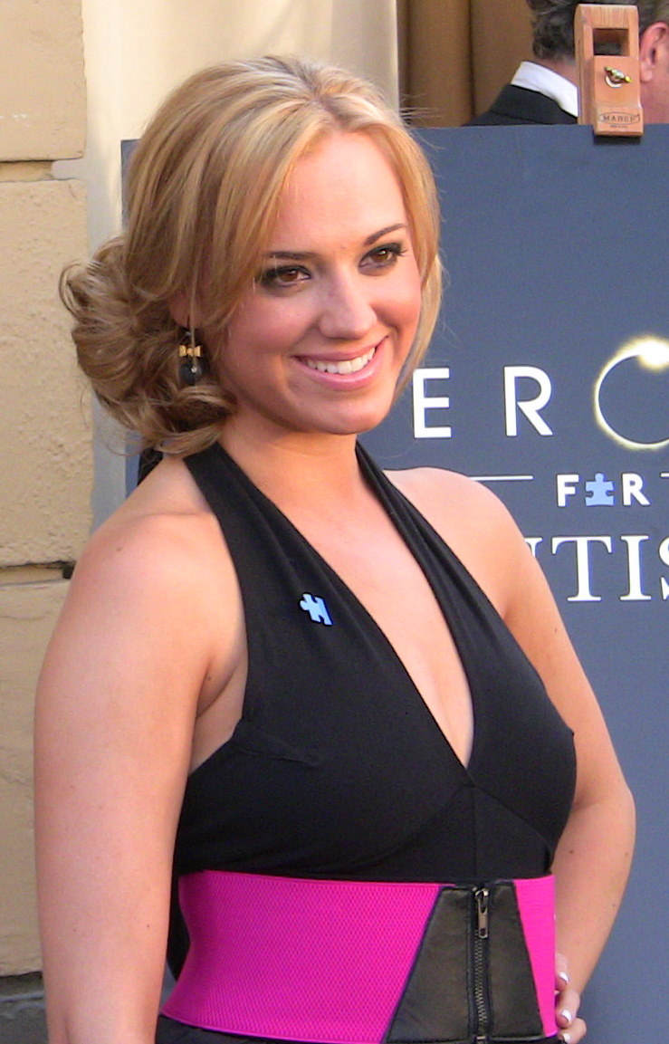 Actress Andrea Bowen at Heroes for Autism event, Hollywood, California.